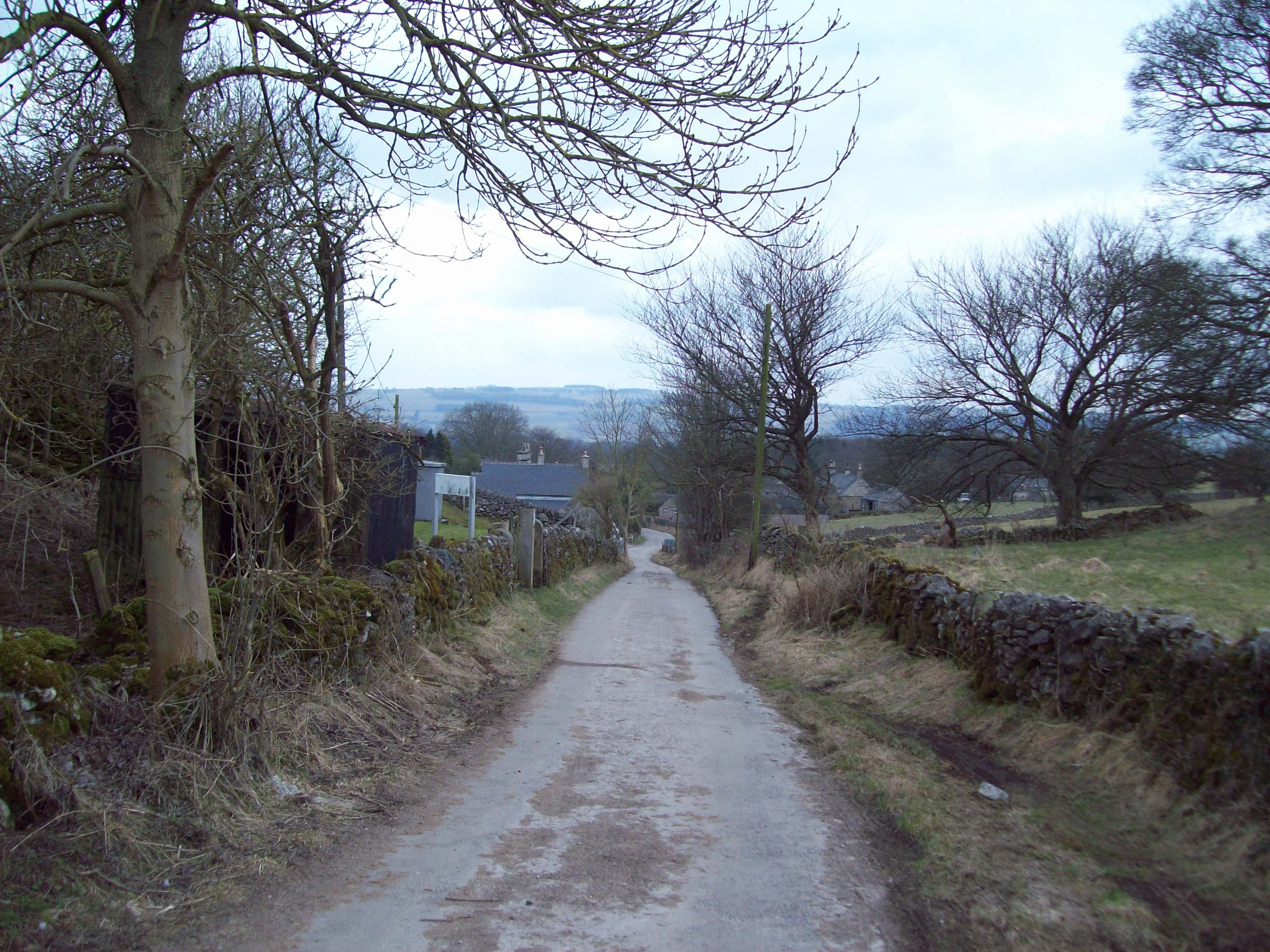 Heading into the Hamlet of Rowland Rowland is a pretty cluster of old buildings close to Great Longstone. This picture was taken from a quiet lane leading down from Hassop Common and shows the dwellings at the northern end of the hamlet.